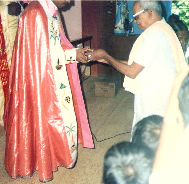 Kuruvilla Pandikattu receiving the offering from Mr Uthuppan on his first mass, Puthuvely, Kerala, India